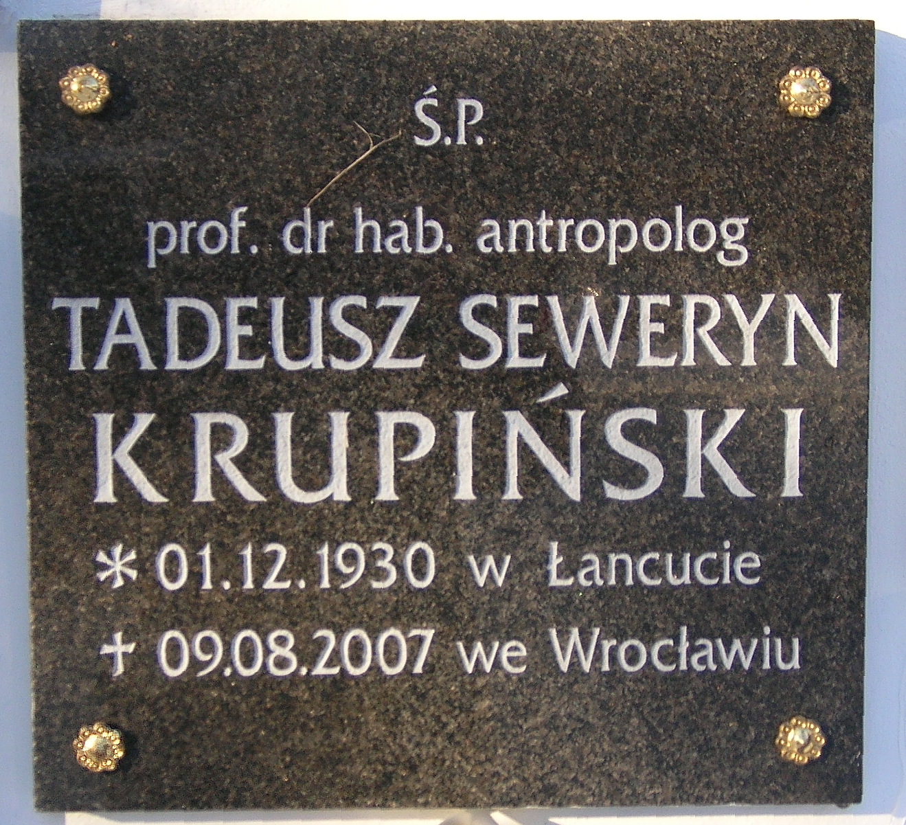 Tadeusz Krupiński, memorial desk near church Blessed_Virgin_Mary_Mother_of_Consolation in Wrocław